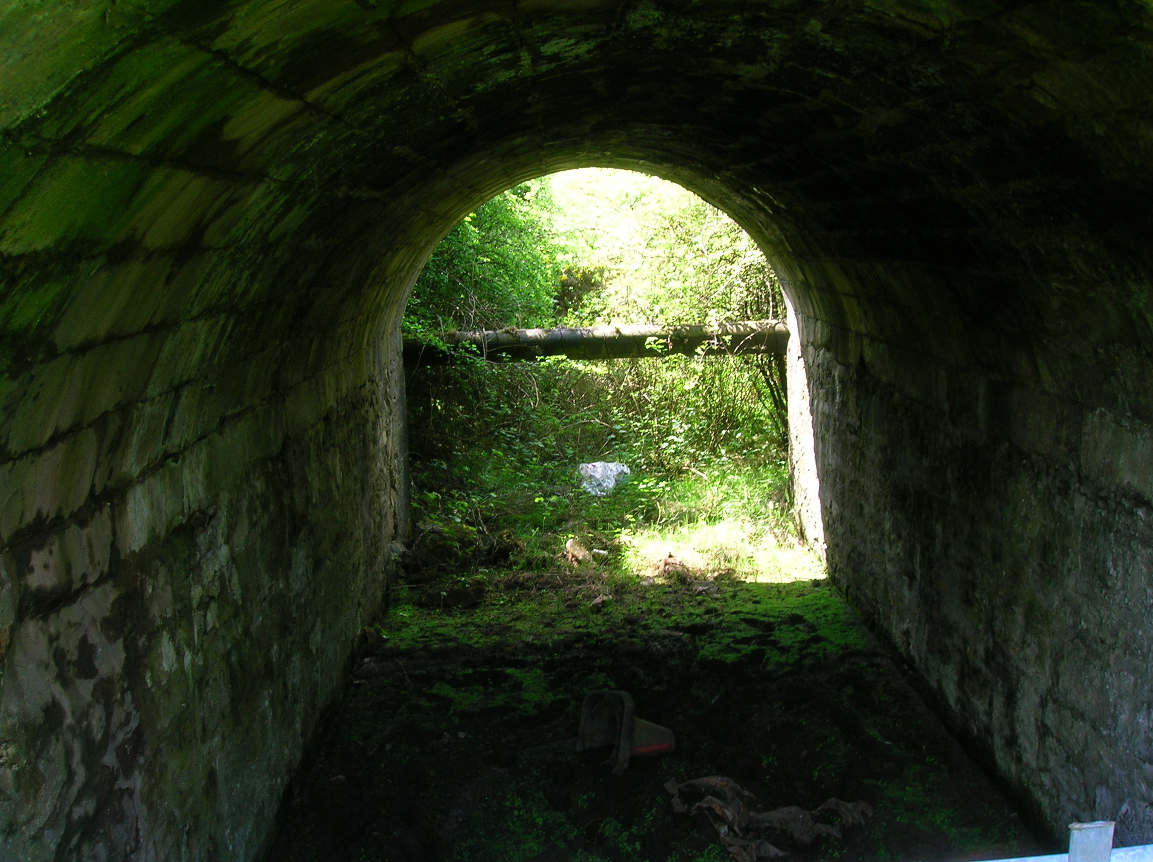 Tunnel/overbridge on the Hillhead Railway from the old Broadstone limestone quarry. Next to the old Windyhouse Farm. Barrmill, Ayrshire, Scotland. Apparently a narrow gauge line to the Kilbirnie Branch.